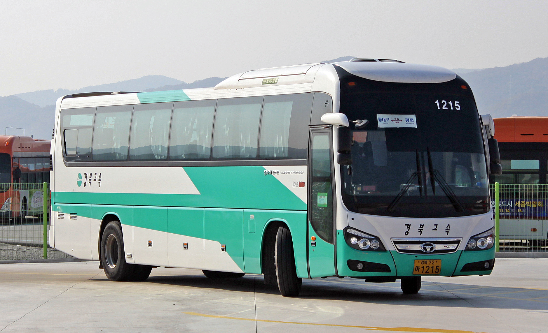 @Sejong Intercity Bus Terminal